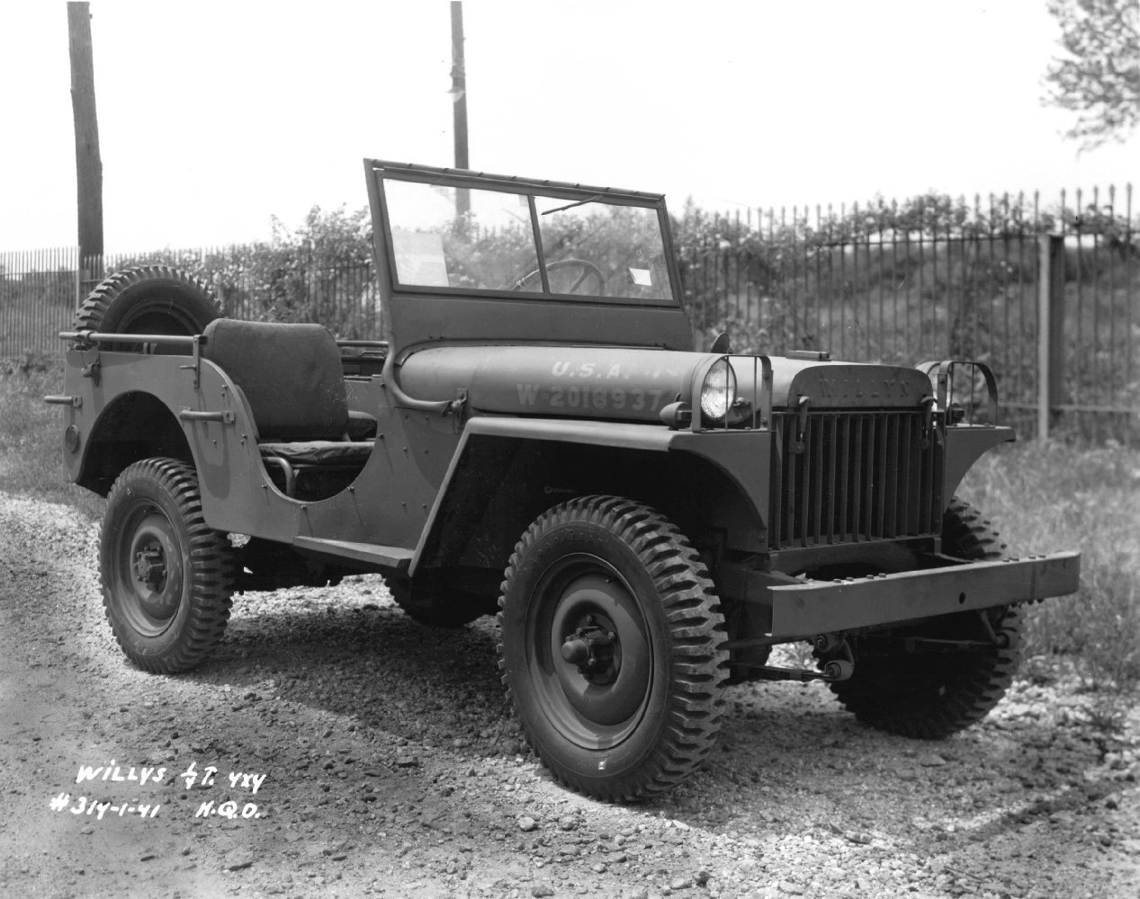 Truck, Willys, 1/4 Ton, 4x4 (Jeep)